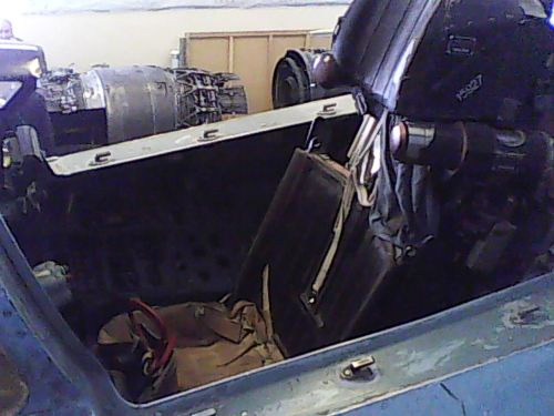 Su-27 cockpit